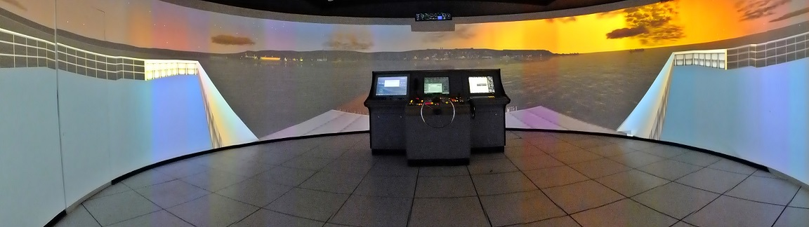 Brige Simulator (Gesher)